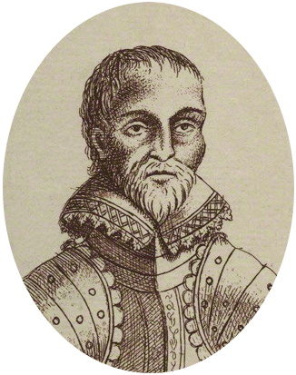 Henry Radclyffe, 2nd Earl of Sussex (1507-1557)